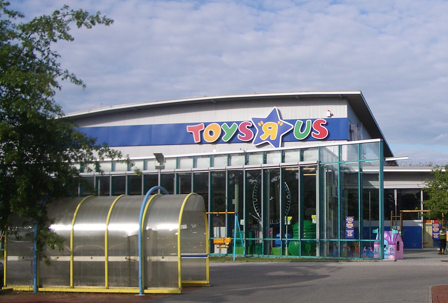 Ravensburg, Germany: Toys "R" Us store.